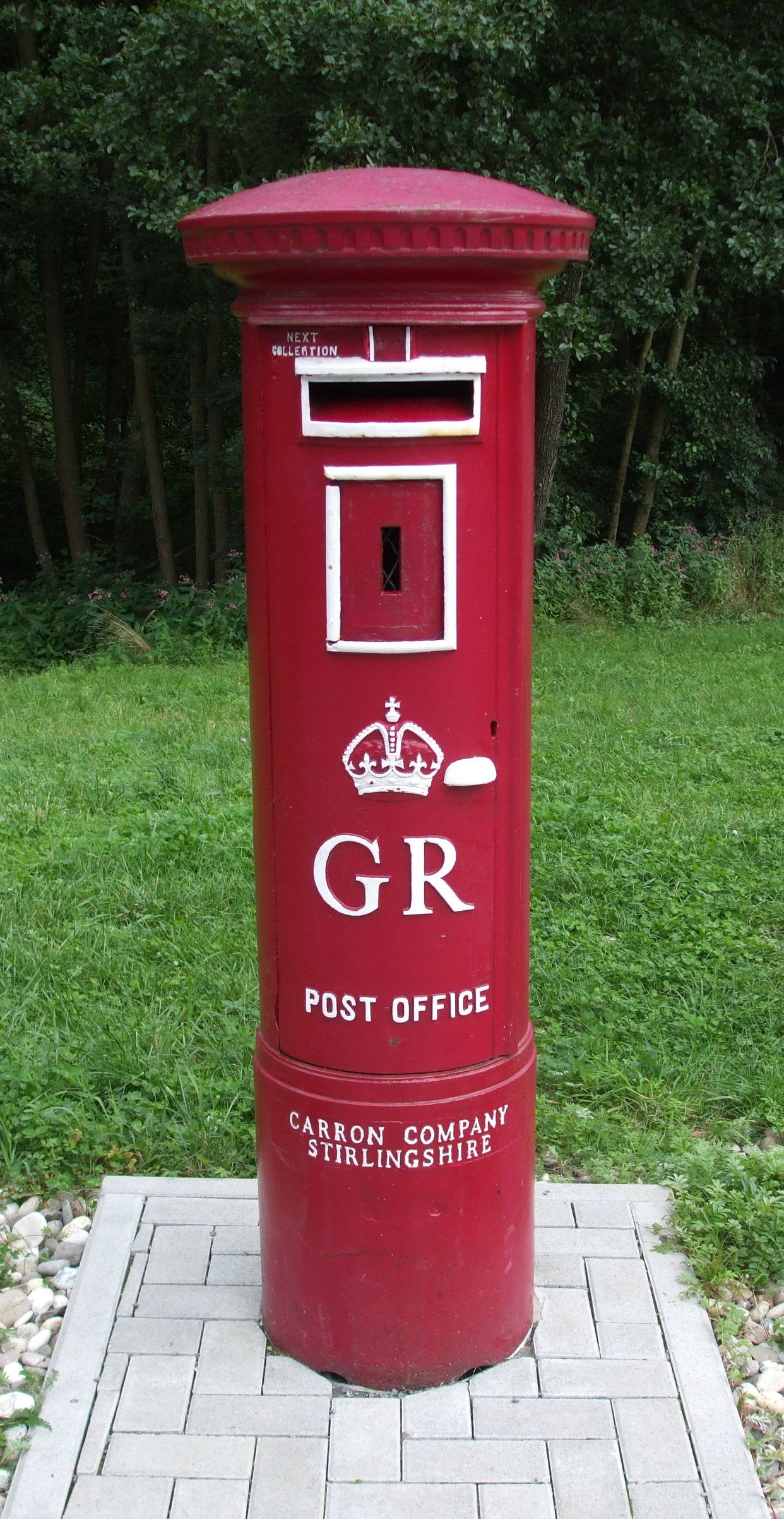 George V Type A pillar box at Felsenmeer in Lautertal, Hesse, Germany